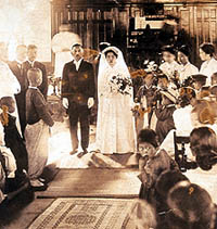 married of Na Hye-sok and Kim Woo-young, in Jeongdong wedding hall, Seoul